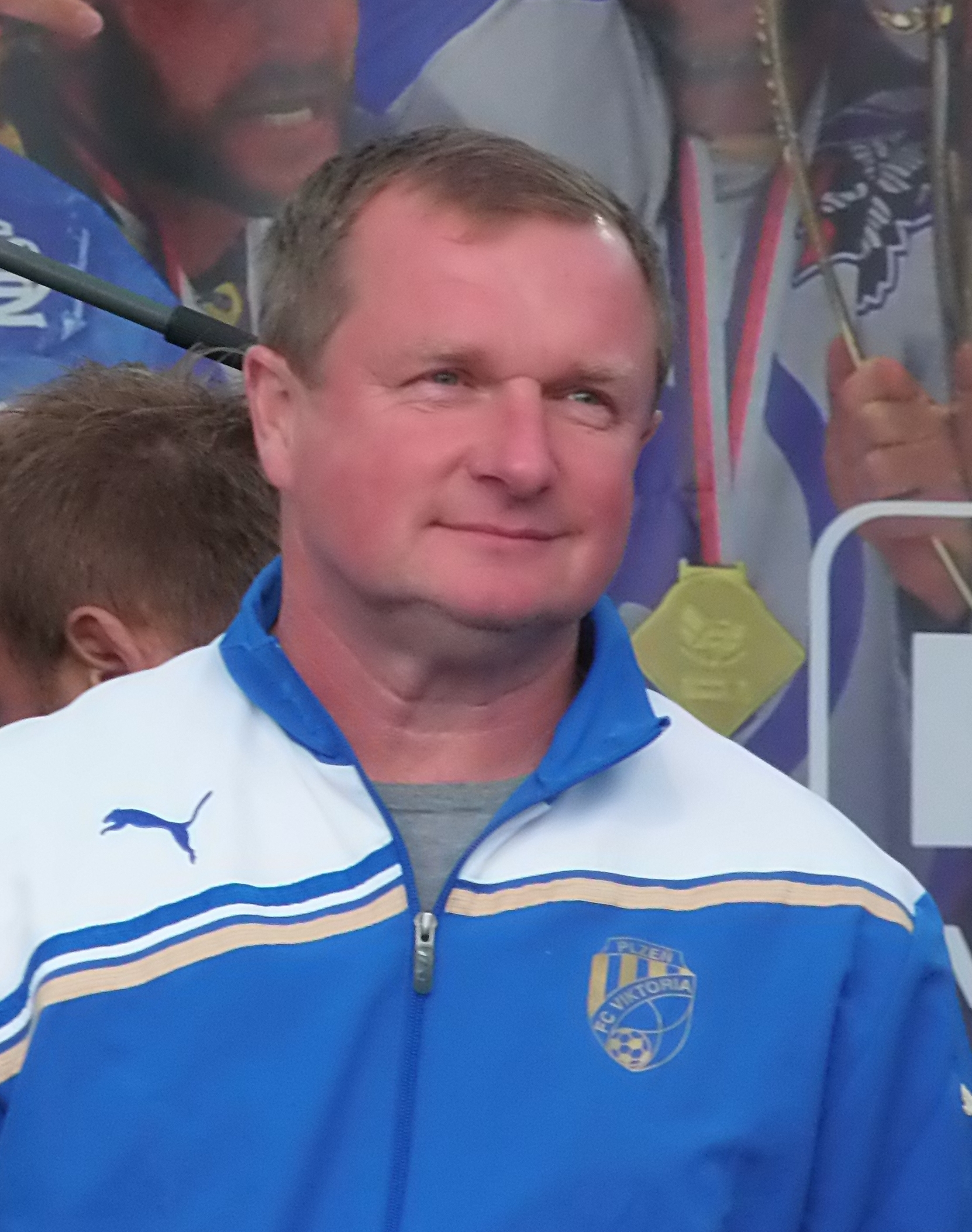 Pavel Vrba 2013-06-26 (Pavel Vrba 01.JPG, cropped)